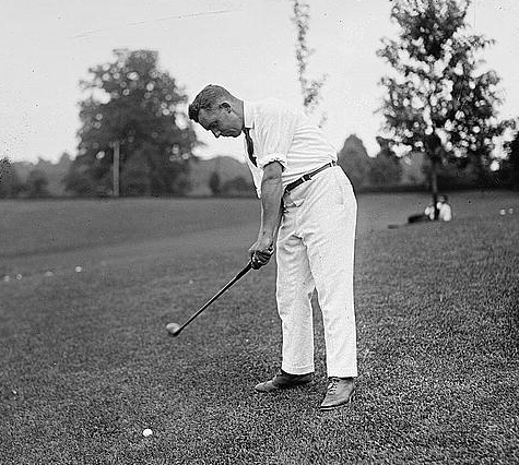 Professional golfer and inventor Willie Ogg, circa 1920